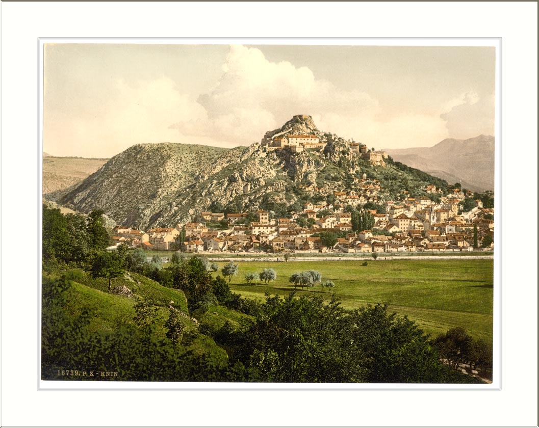 Knin general view Dalmatia Austro-Hungary